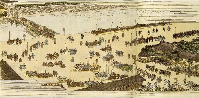 "En masse Attendance of Daimyo at Edo Castle on a Festive Day" from the "Tokugawa Seiseiroku". National Museum of Japanese History.